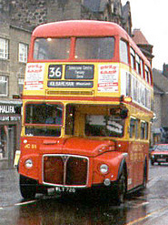 Clydeside Scottish Routemaster bus RM720 (fleet no. JC51, reg. WLT 720), pictured in Johnstone High Street, Renfrewshire. It's operating route 36 from Glasgow to Kilbarchan Wheatlands, via Johnstone Centre, Paisley & Ibrox.